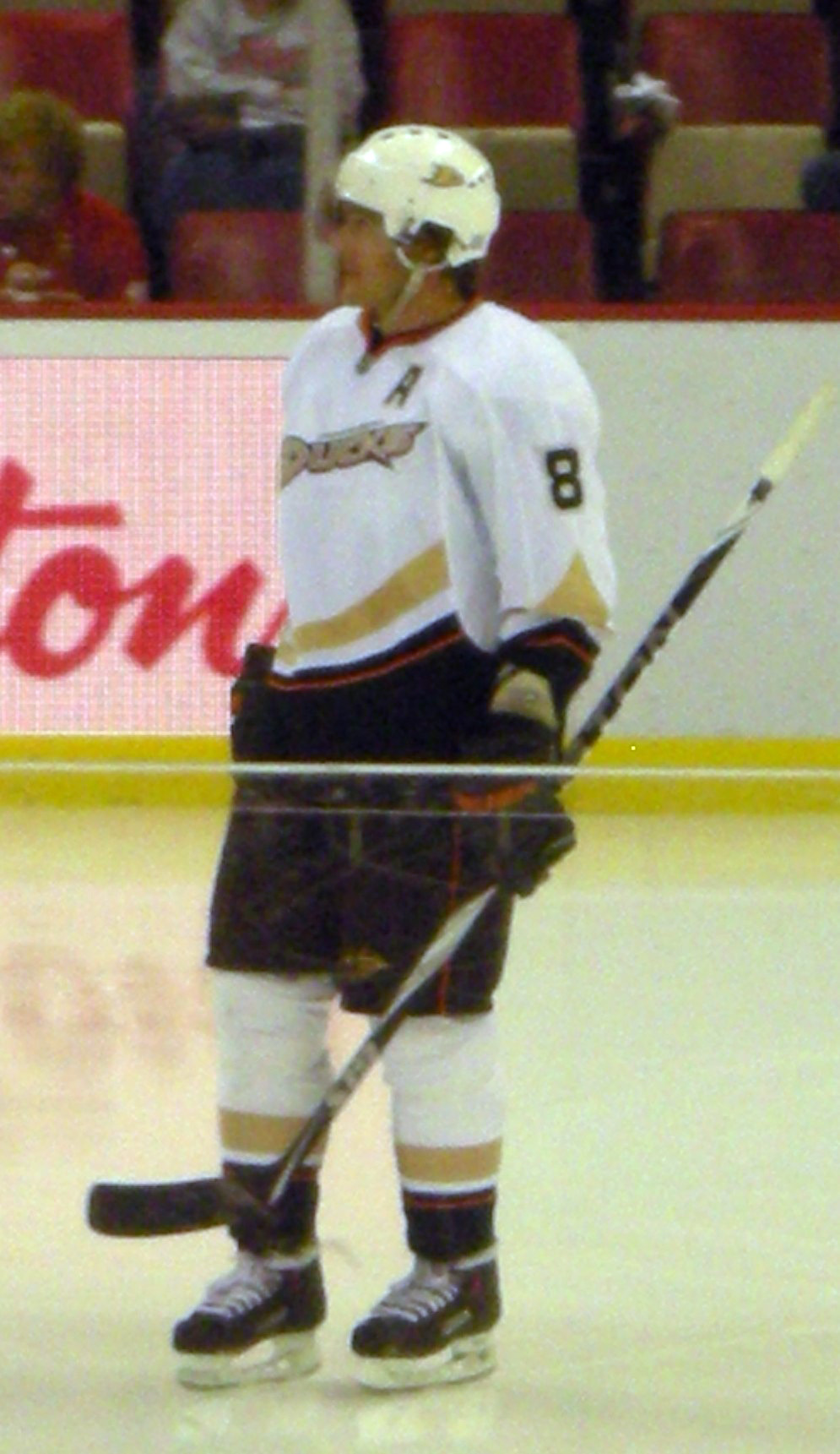 Teemu Selänne during the Anaheim Ducks vs. Detroit Red Wings ice hockey game at Joe Louis Arena in Detroit, Michigan (United States). Detroit won 4–0.